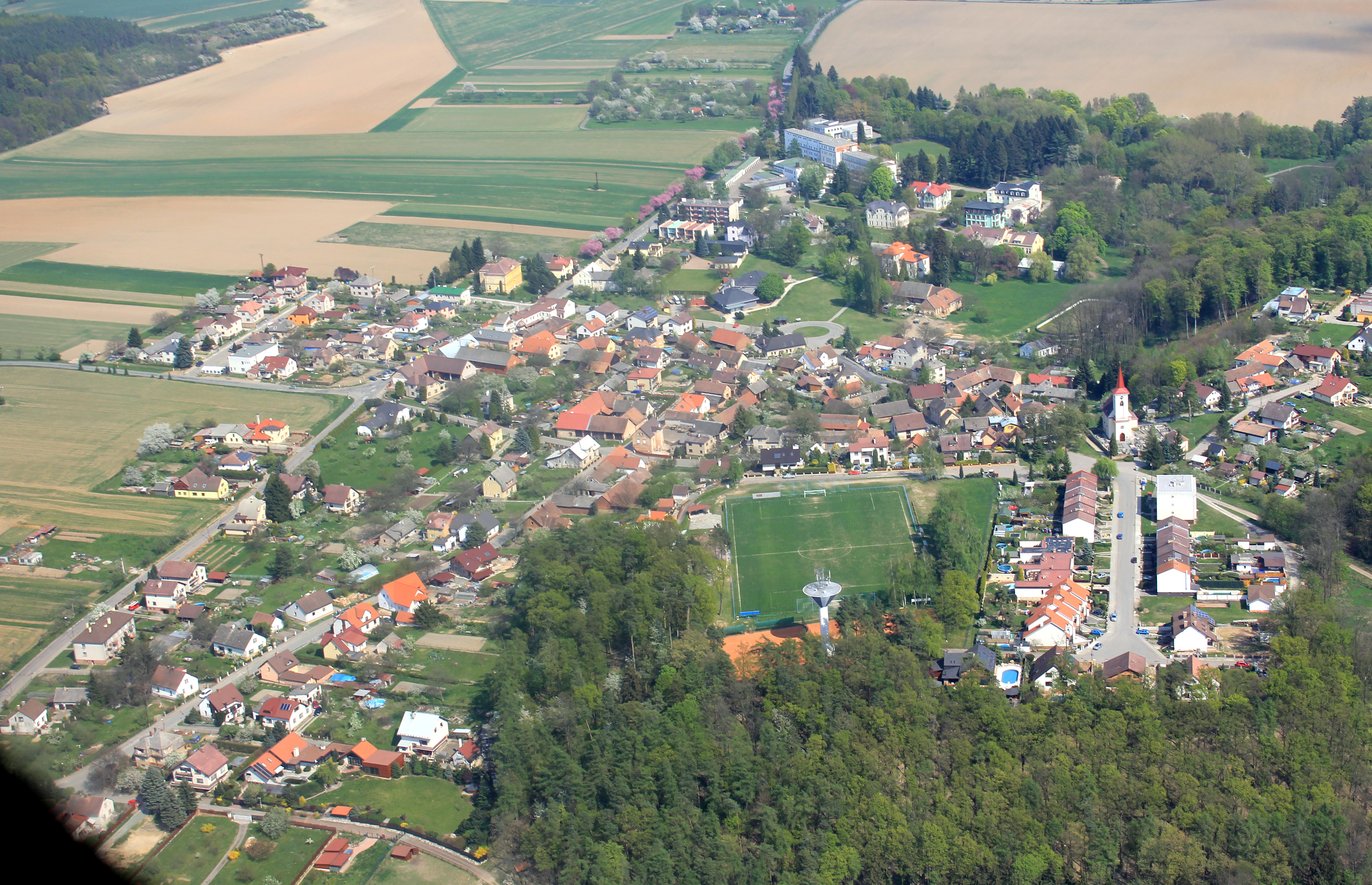 Village and small spa Velichovky from air, eastern Bohemia, Czech Republic